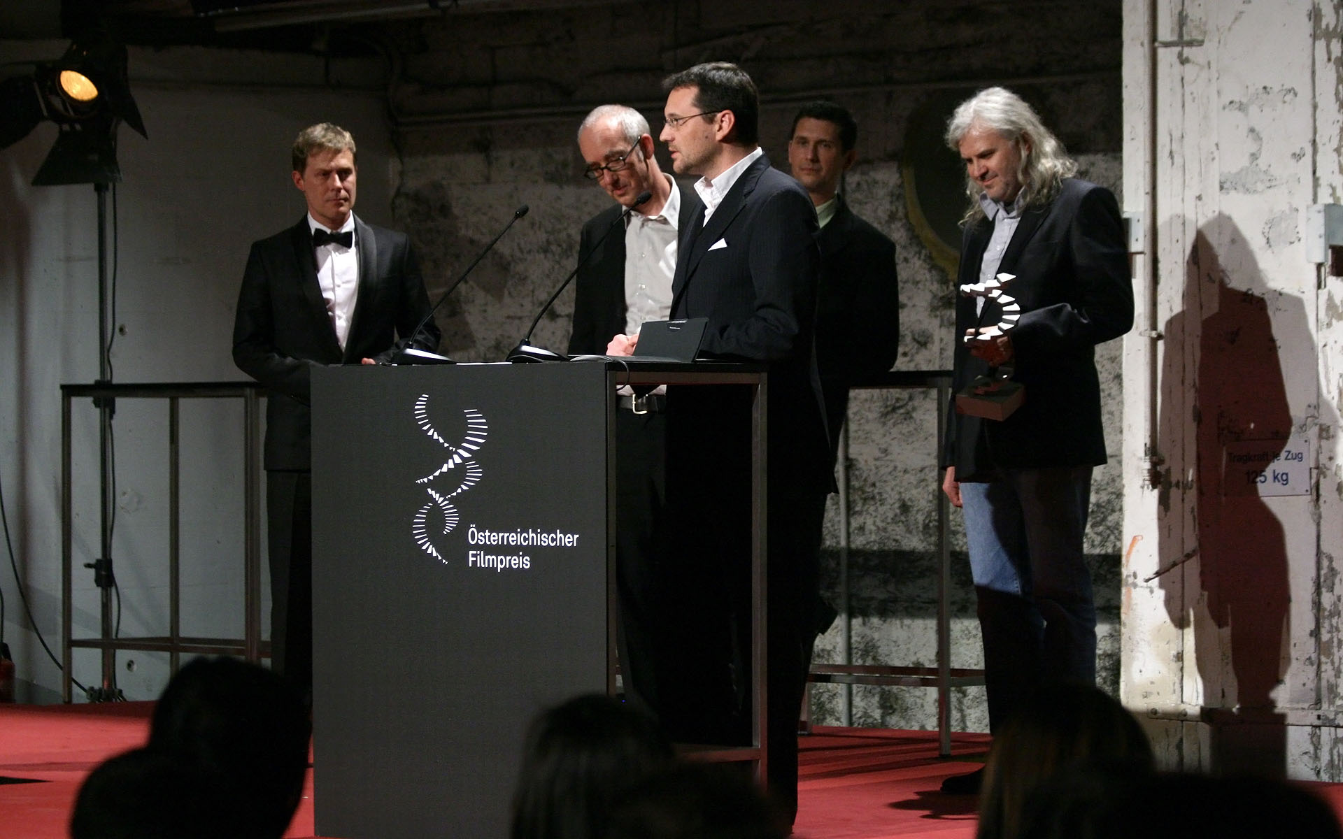 Tommy Pridnig, Peter Wirthensohn and Michael Glawogger; Austrian Film Awards 2012 (Vienna).